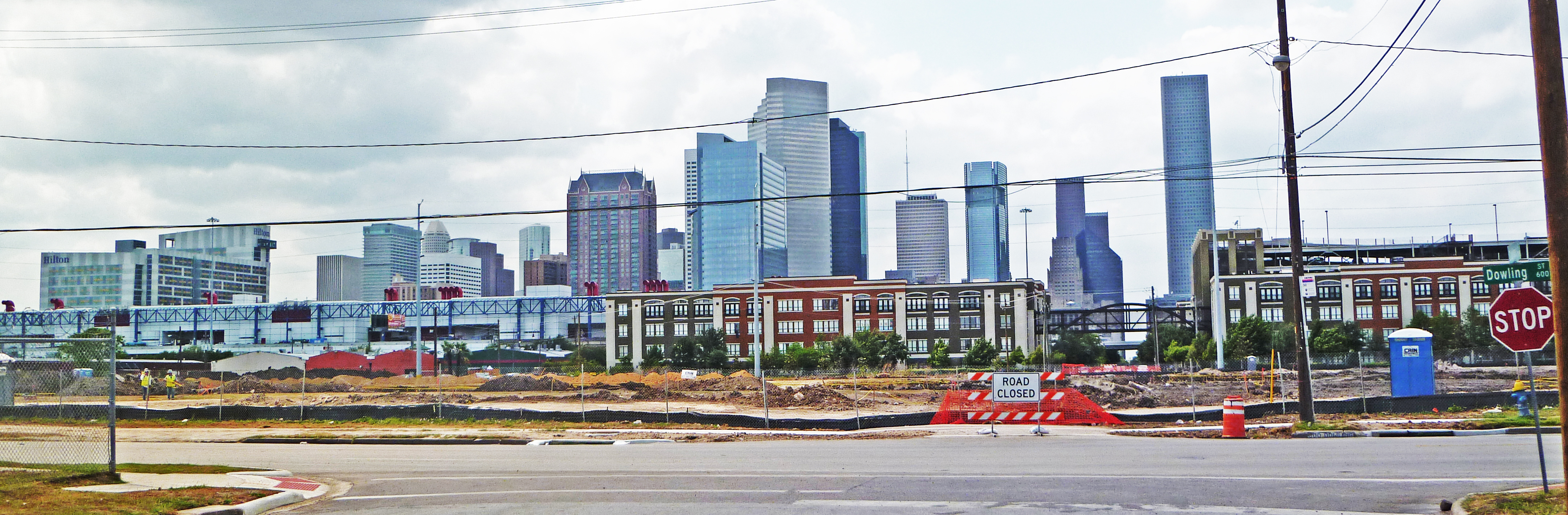 Broken ground of the stadium as of date taken (4/23/11) Facing west towards downtown.